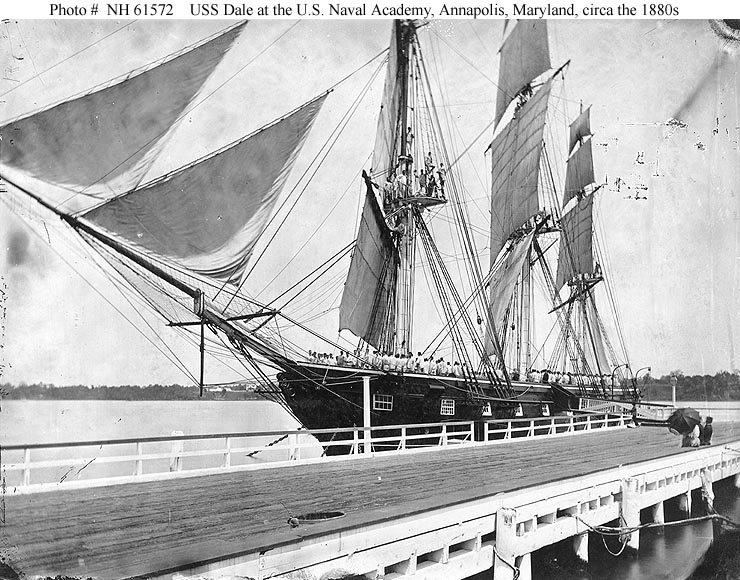 USS Dale as training ship as US Naval Academy, Annapolis, MD.